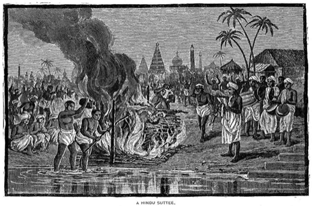 From:The Story Of Baptist Missions In Foreign Lands; Rev. G. Winfred Henrvey; Chancy R. Barns; 1885